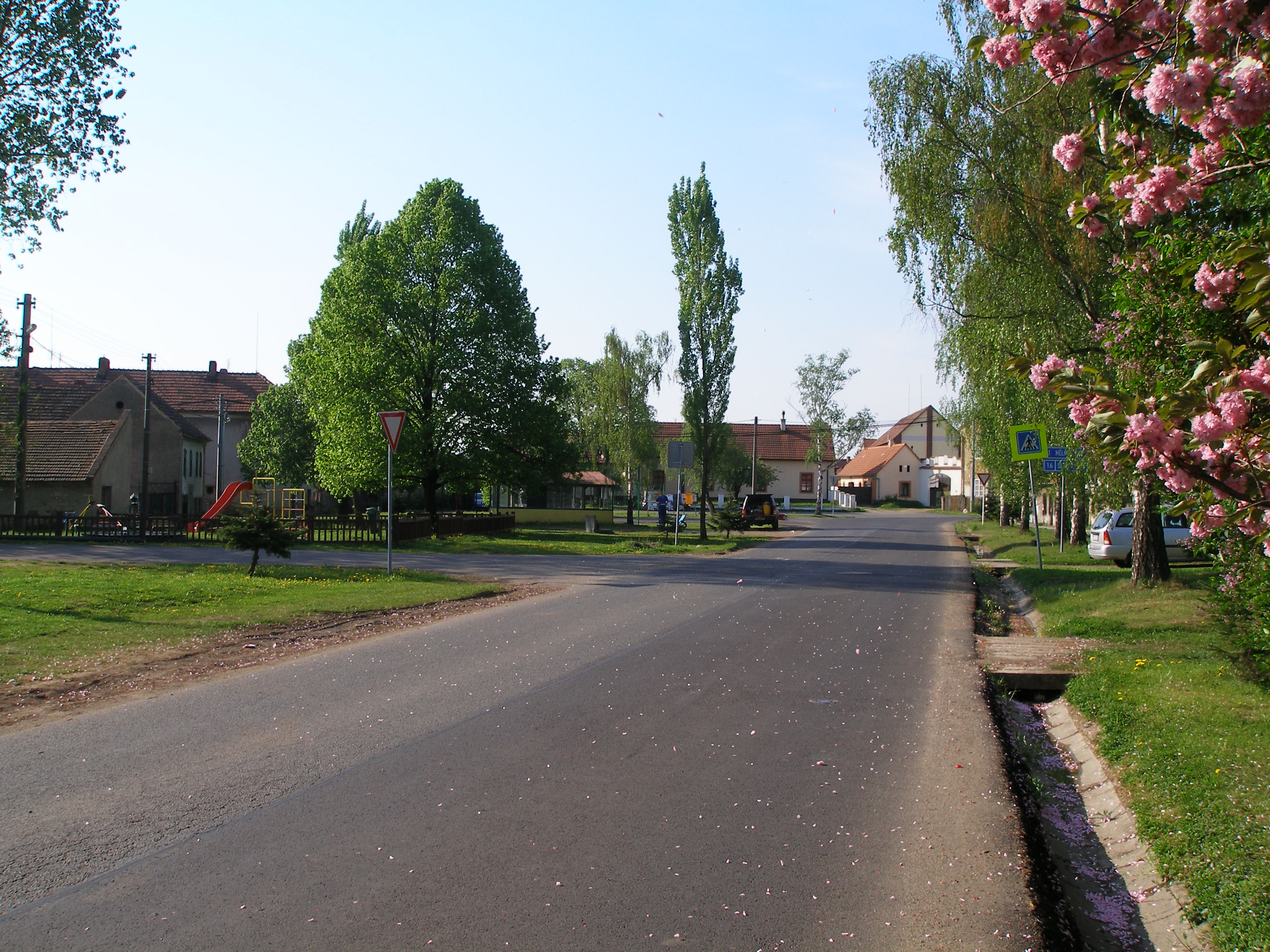 Village center in Spomyšl.